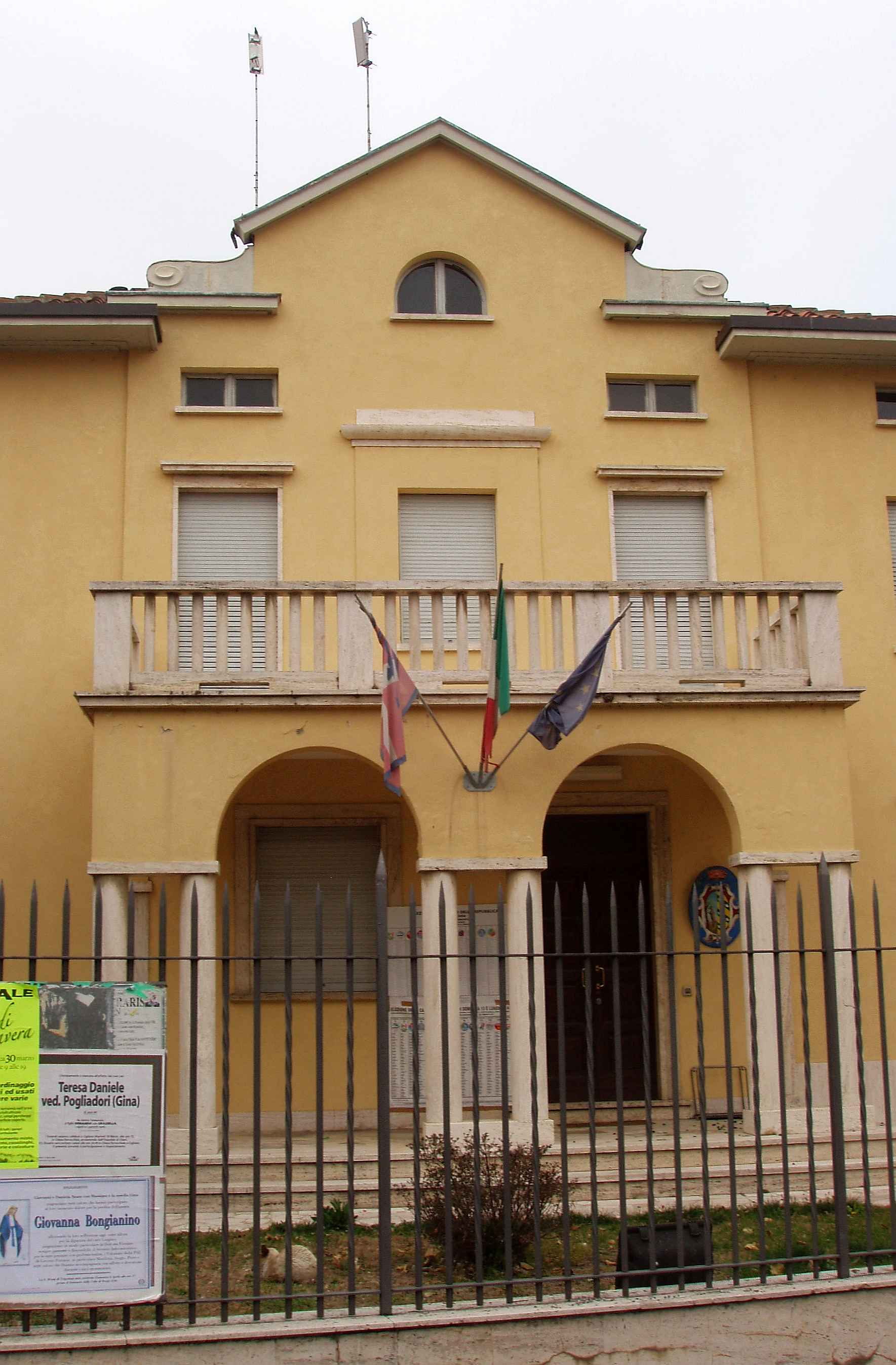 Moncrivello (VC, Italy): town hall